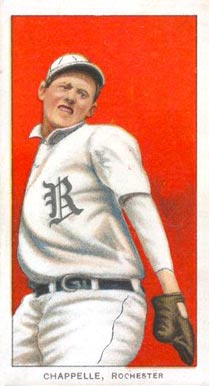 Depicted person: Bill Chappelle – American baseball player